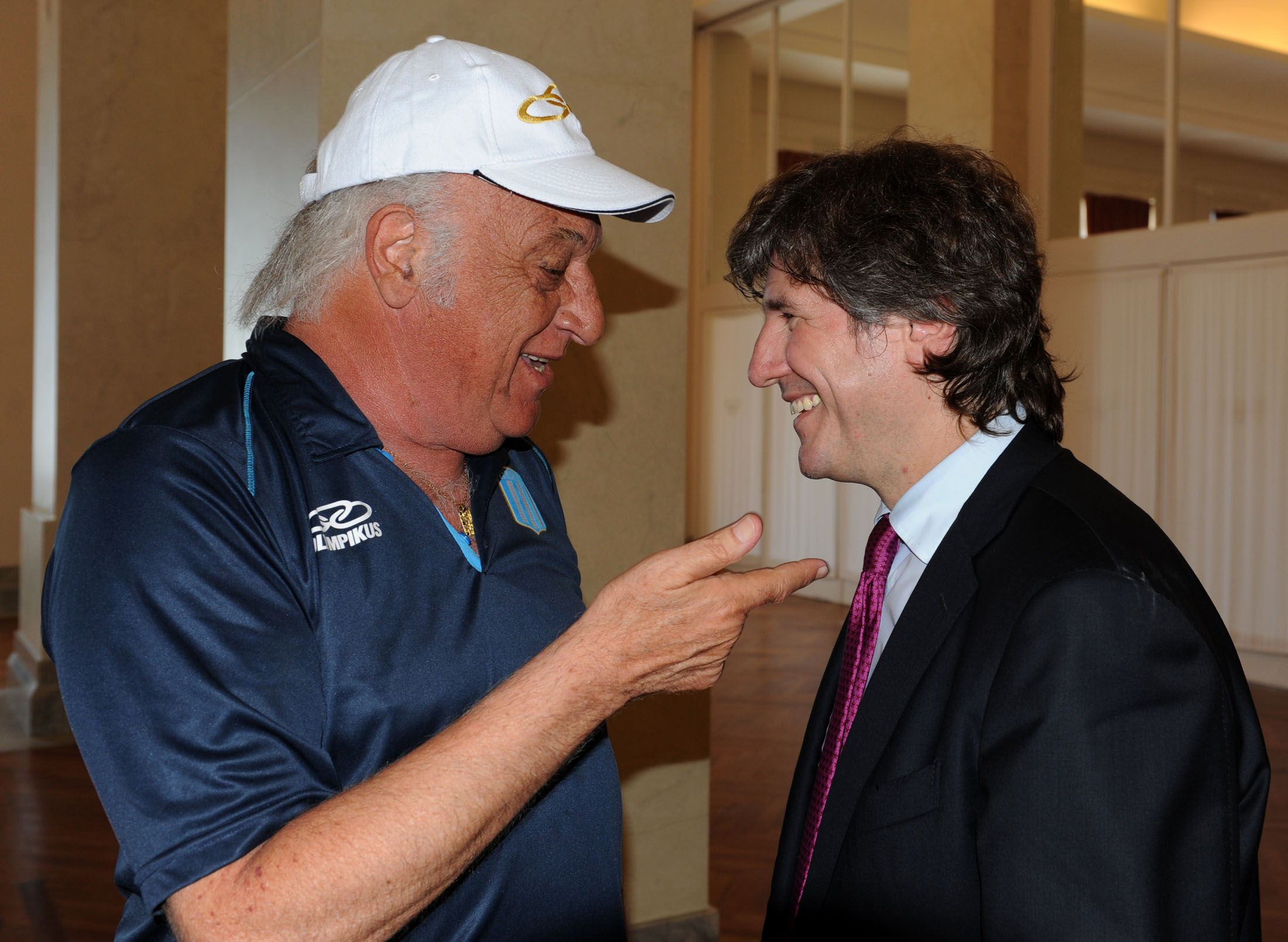 The vicepresident of Argentina, Amado Boudou, talking with Racing Club de Avellaneda football coach Alfio Basile. This meeting was in the city of Mar del Plata where Racing team was hosted.